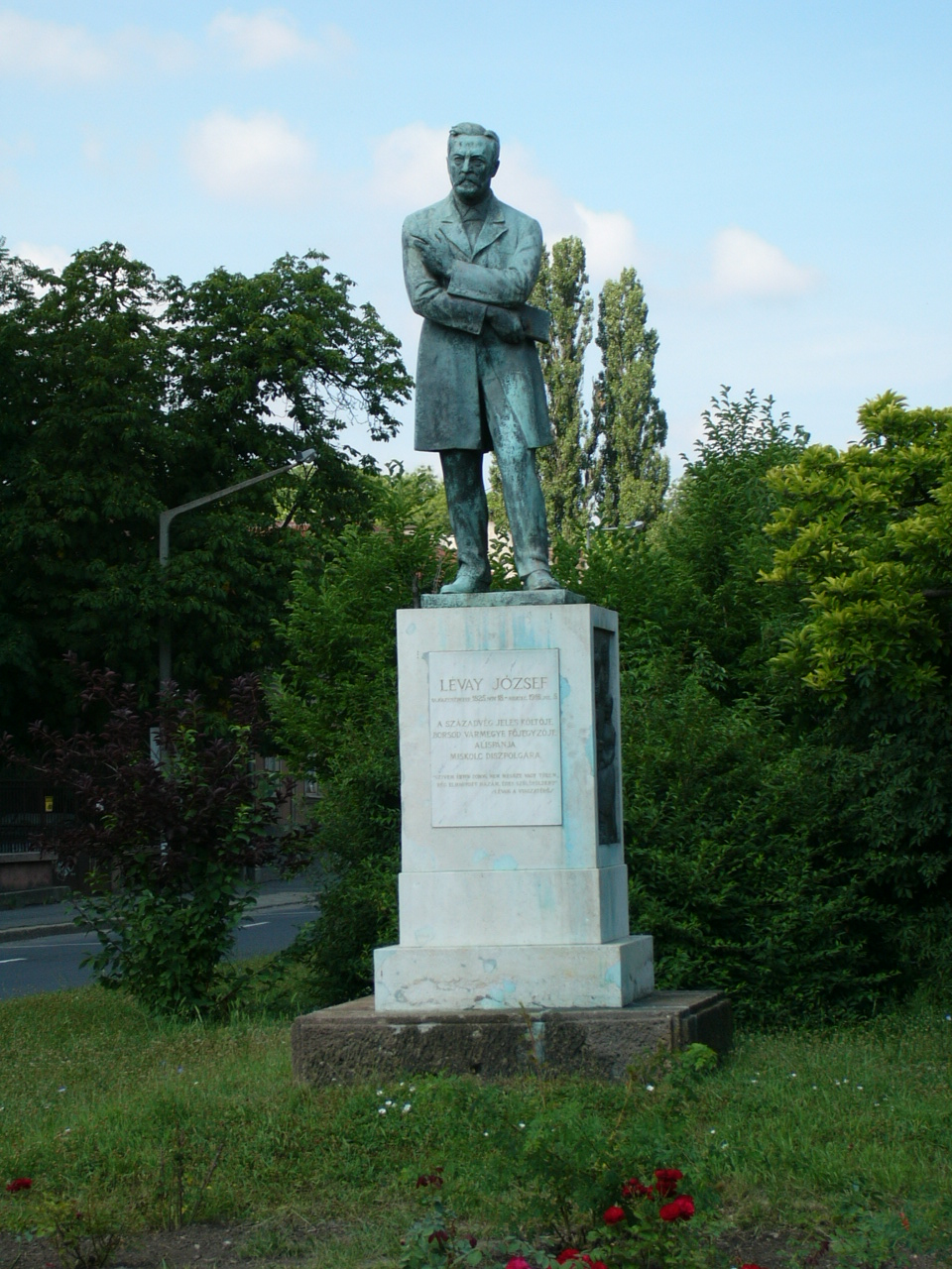 Statue of József Lévay. (sculptor: Dezső Borsodi Bindász – 1934)